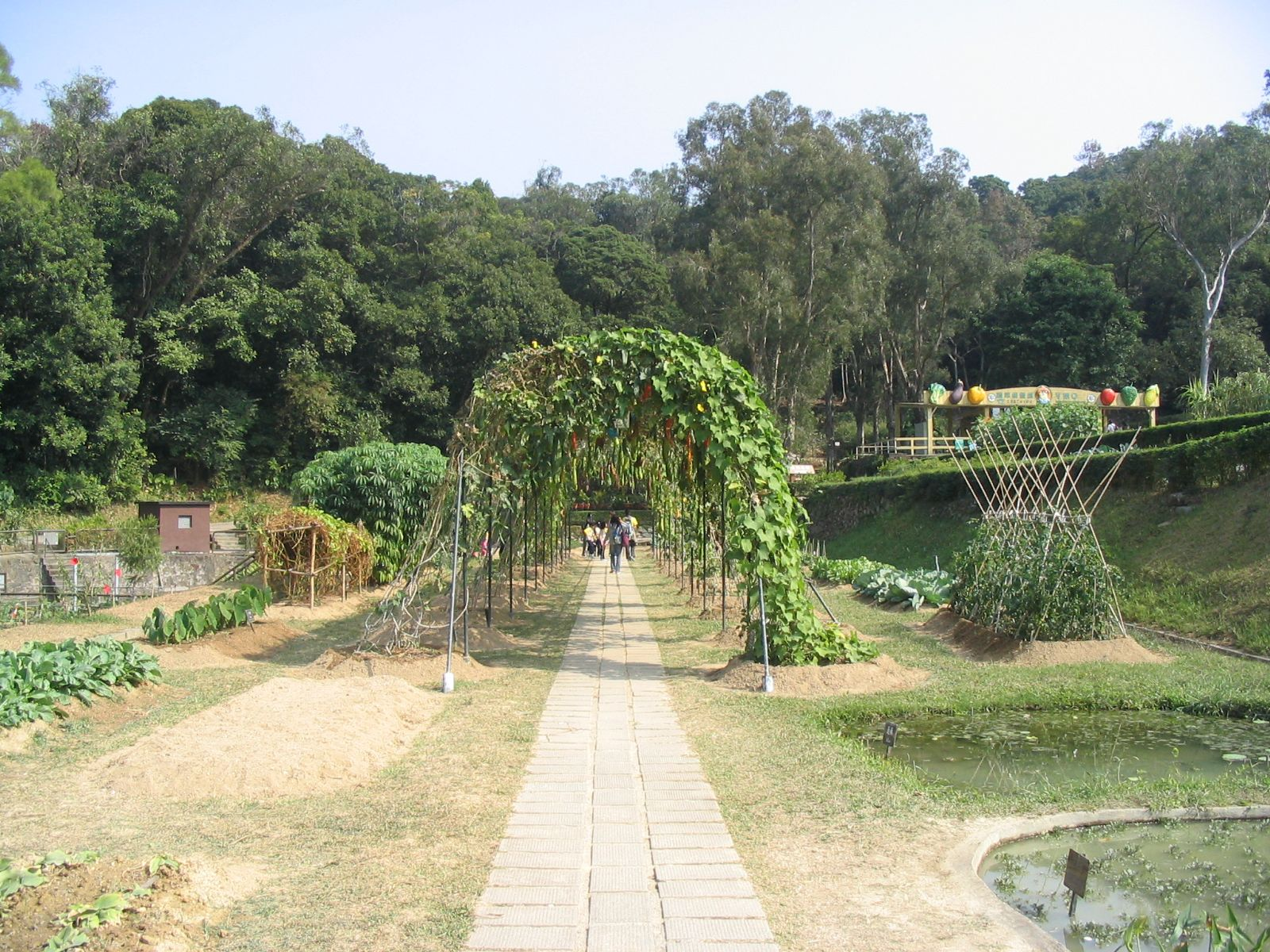 蕉坑特別地區-獅子會自然教育中心 Lion's Natural Education Centre, Tsiu Hang Special Area